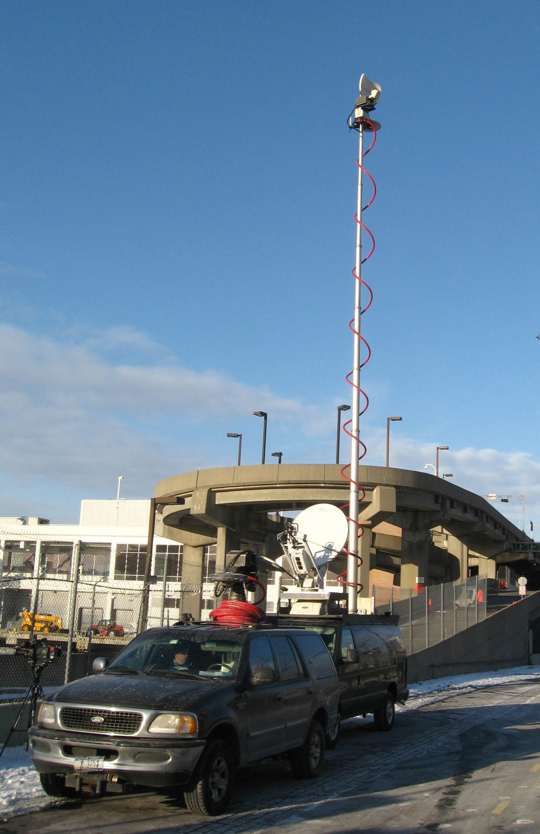 Looking north at television news production truck doing a remote broadcast at New York Passenger Ship Terminal, awaiting news of recovery of missing airplane engine in Hudson River. The tall telescoping antenna mast is extended to enable the microwave dish antenna to have a line-of-sight path to the receiving antenna (in this case on the Empire State Building), to transmit live video back to the production facility.